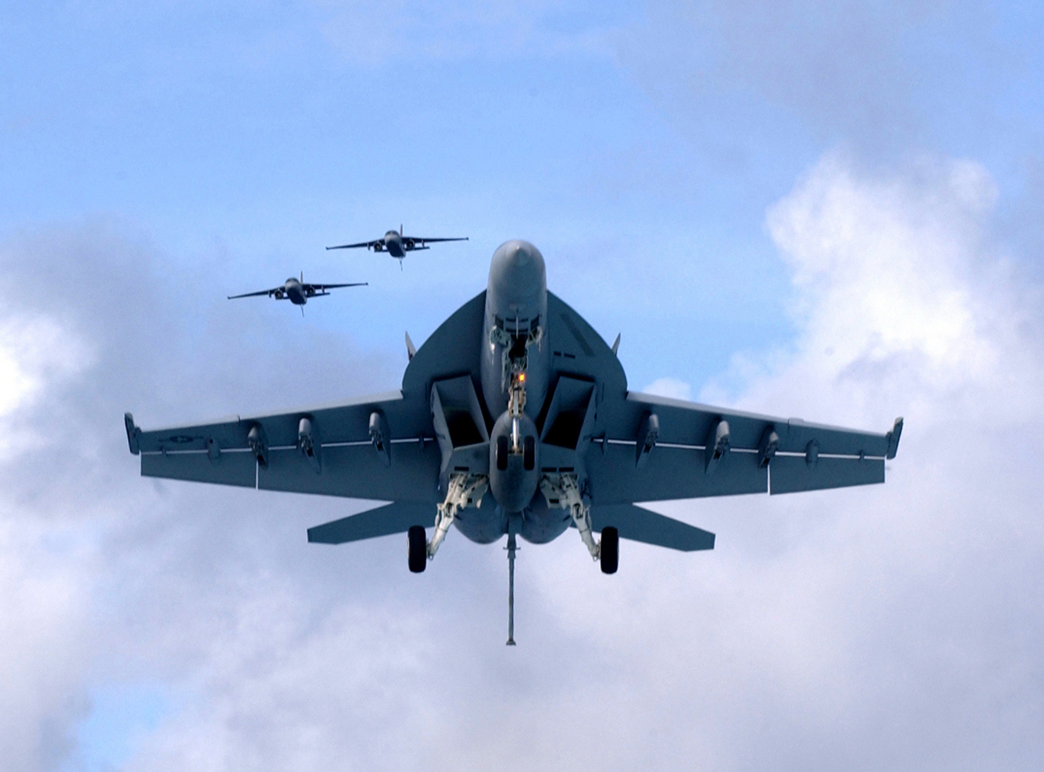 An F/A-18E Super Hornet makes its final approach (arrestor hook extended) before landing on the flight deck of USS Ronald Reagan (CVN 76) on Dec. 6, 2004.